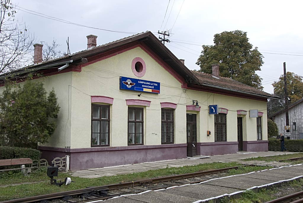 Station from Câmpulung la Tisa - Maramureş - Romania